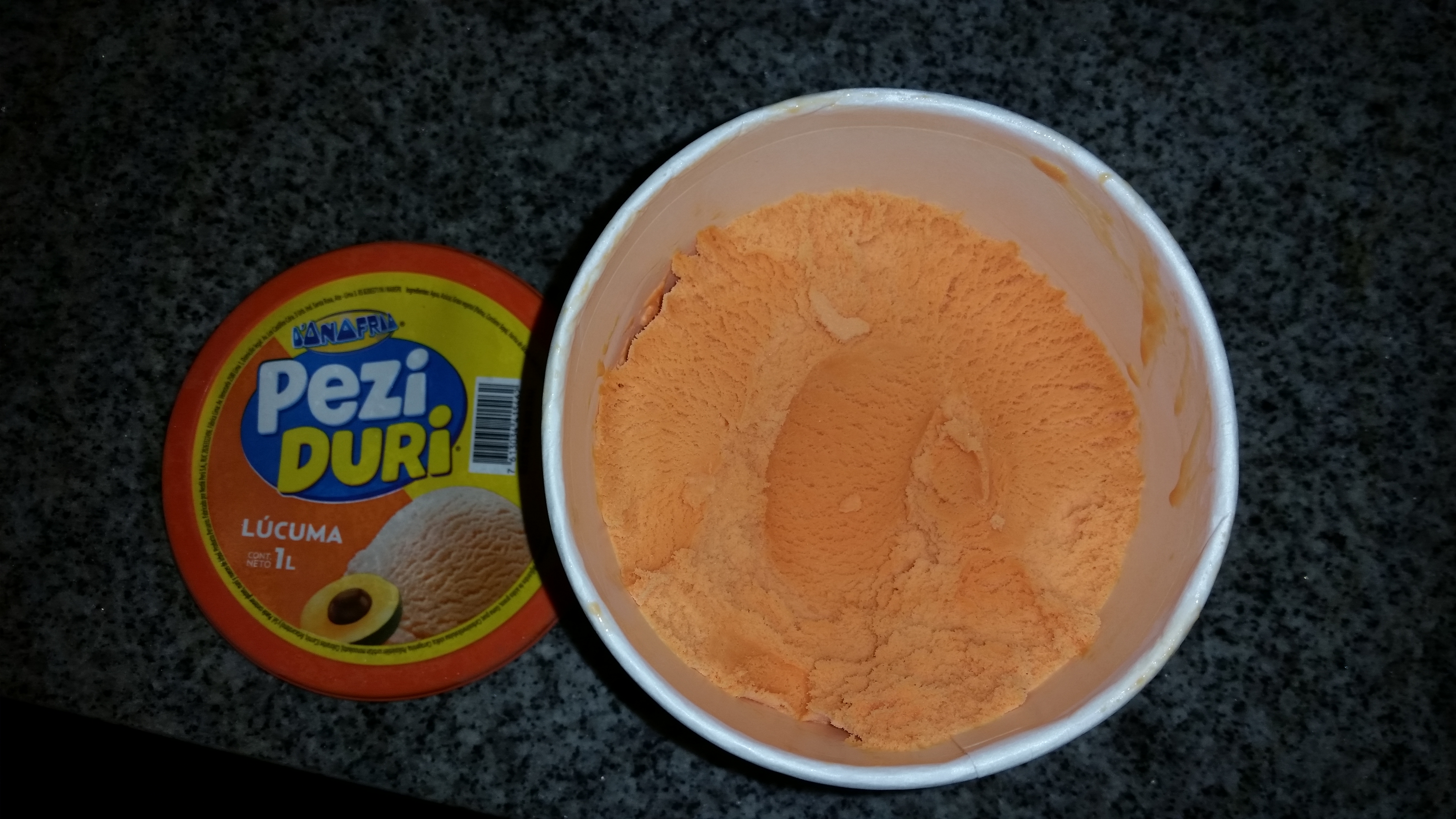 Lucuma ice cream from a supermarket in Peru